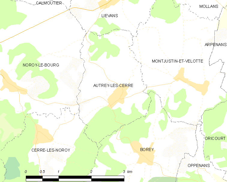 Map of French municipality